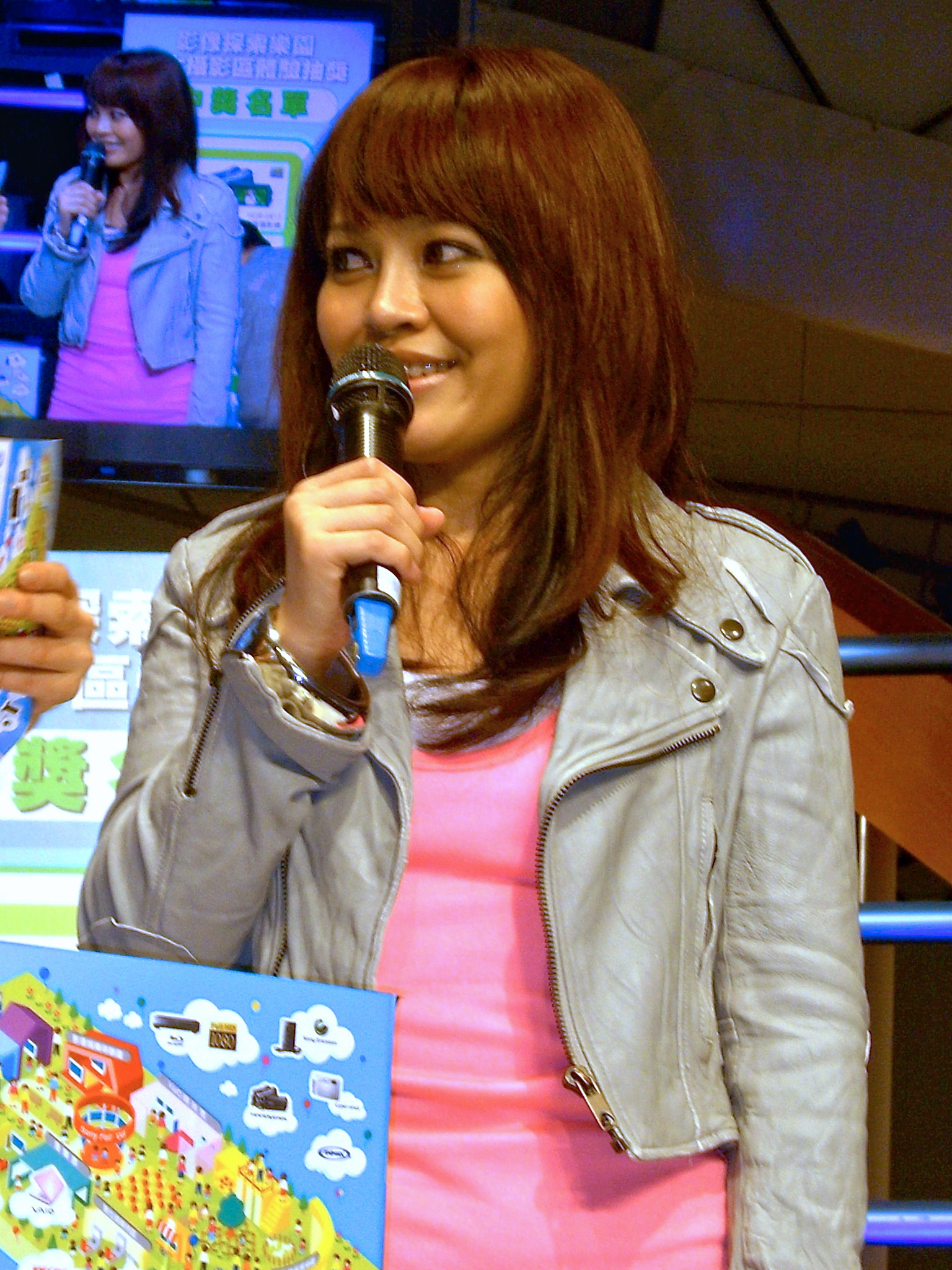 Sony Fair 2008: Ailing Tai.Bân-lâm-gú: Tè Ài-lîng tī 2008-nî Sin-li̍k Tián-lám-huē(Sony Fair 2008)./戴愛玲佇2008年新力展覽會(Sony Fair 2008)。